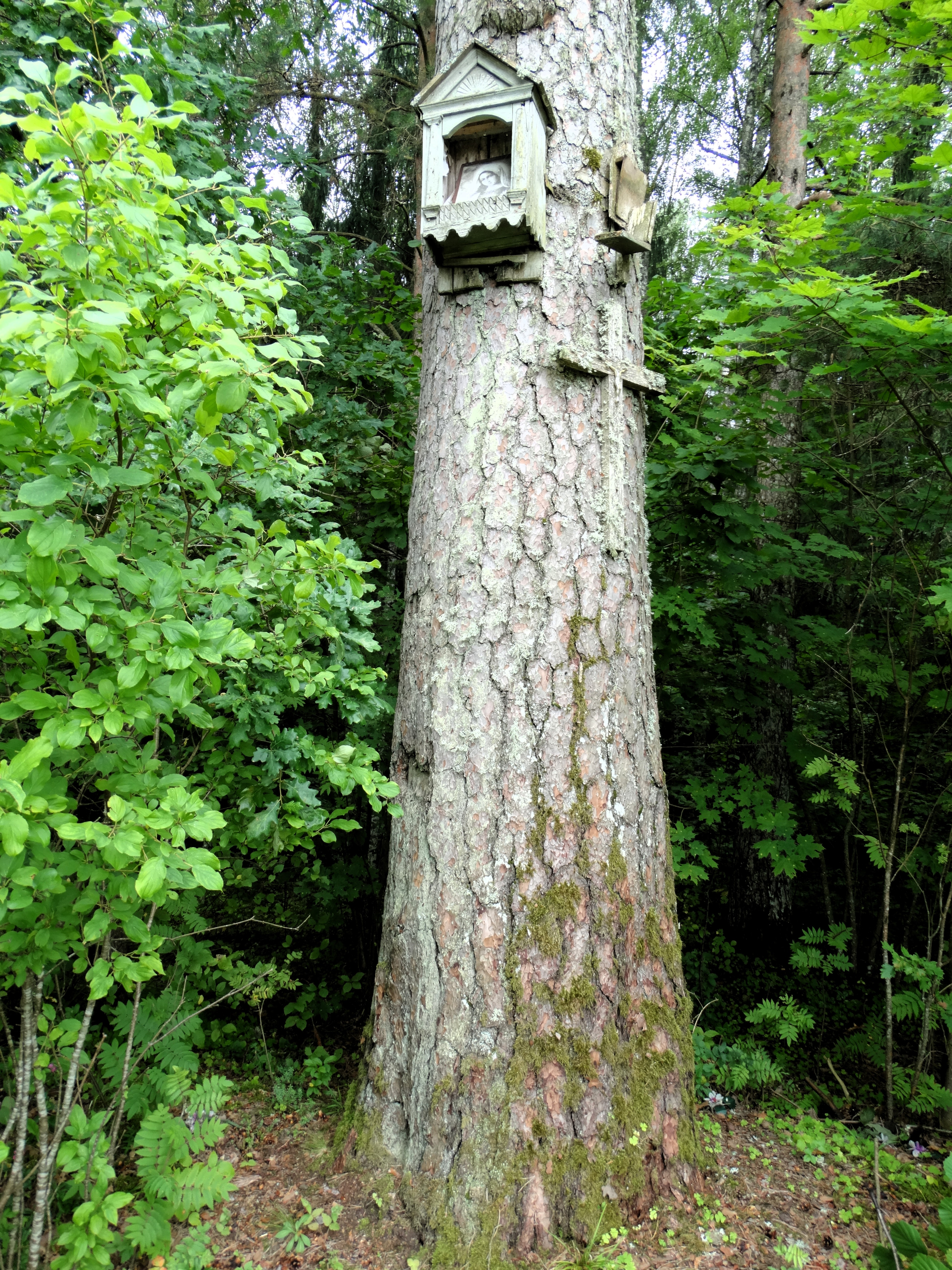 Santekliai pine tree, Mažeikiai district, Lithuania